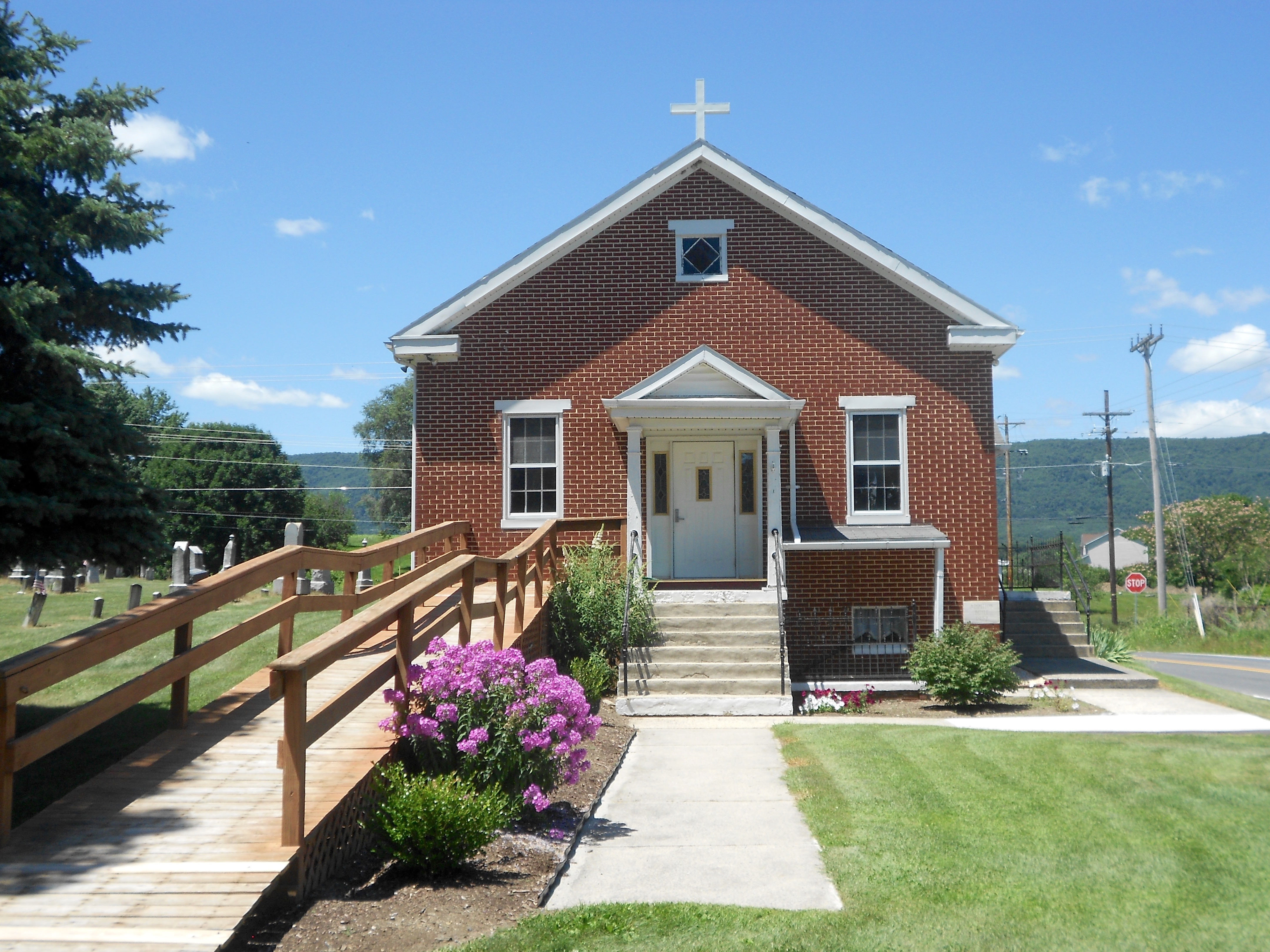 Center Lutheran Church in Lower Mifflin Township, Cumberland County, Pennsylvania.